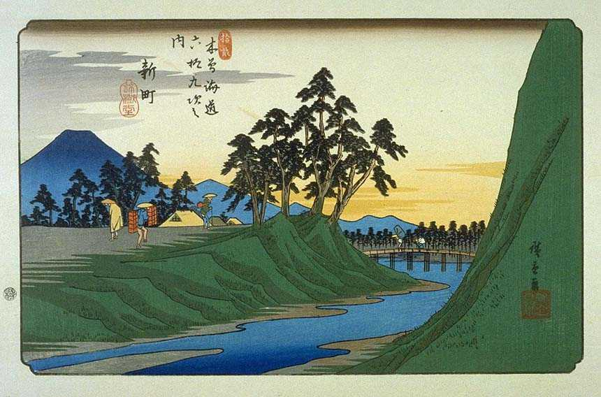 Shinmachi on the Kisokaido, ukiyo-e prints by Hiroshige